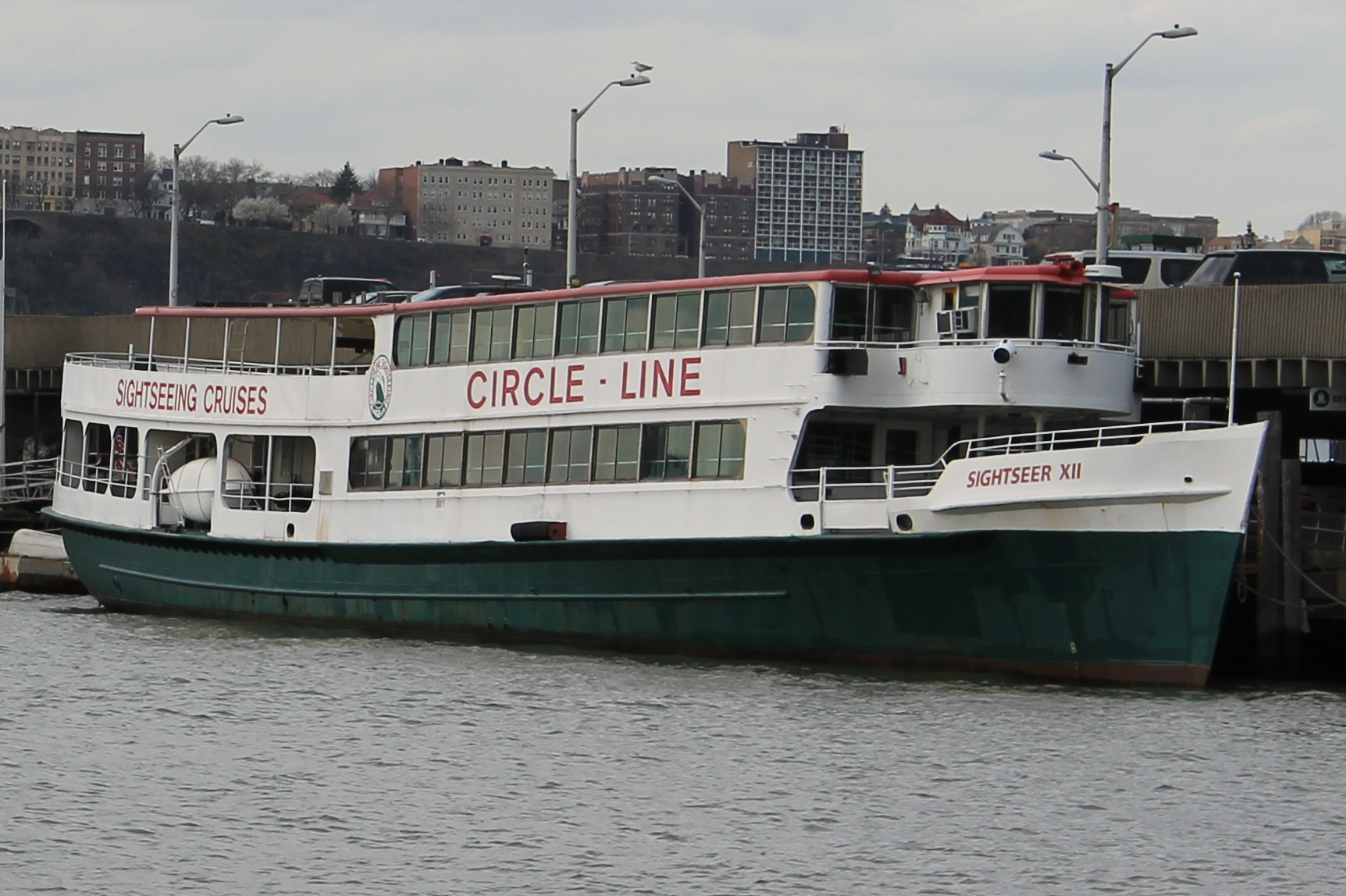 Sightseer XII, a former Coast Guard patrol boat, seen at Circle Line's Pier 83 in Manhattan.